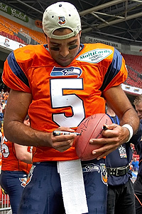 Desctiption: Gibran Hamdan signing the game ball after a 35-31 victory over Rhein Fire in week 5 of the 2006 season. Author: Michael Rosa, XiPHiAS Photography Source: NFLEuropa.nl URL